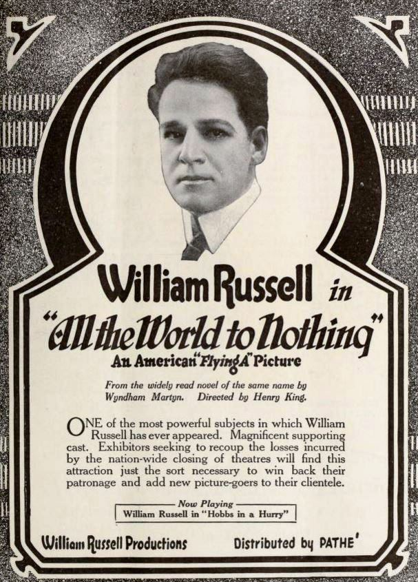 Advertisement for the American comedy drama film All the World to Nothing (1918) with William Russell, on page 7 of the November 30, 1918 Exhibitors Herald.